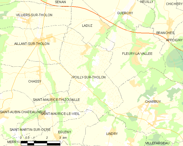 Map of French municipality Poilly-sur-Tholon